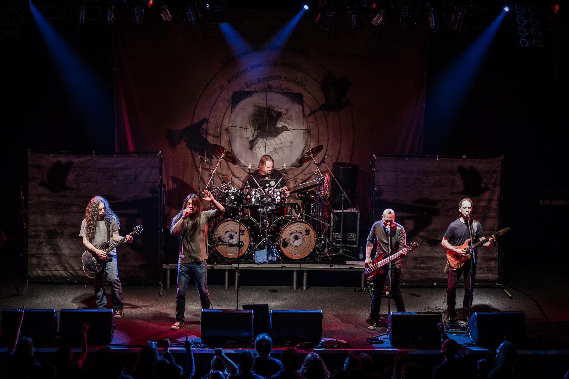 Fates Warning in Majestic Music Club in Bratislava, Slovakia (2017)